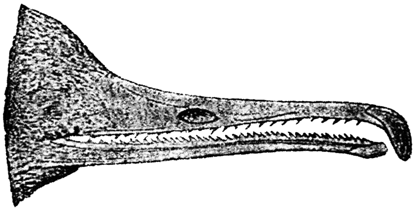 The beak of a Mergus